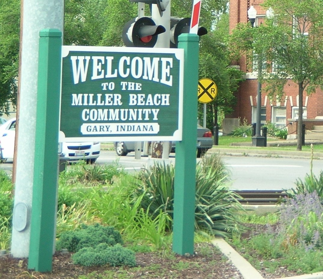 Sign welcoming visitors to Miller Beach in Gary, Indiana, at the intersection of Lake Street and US 12, adjacent to the Miller South Shore station.